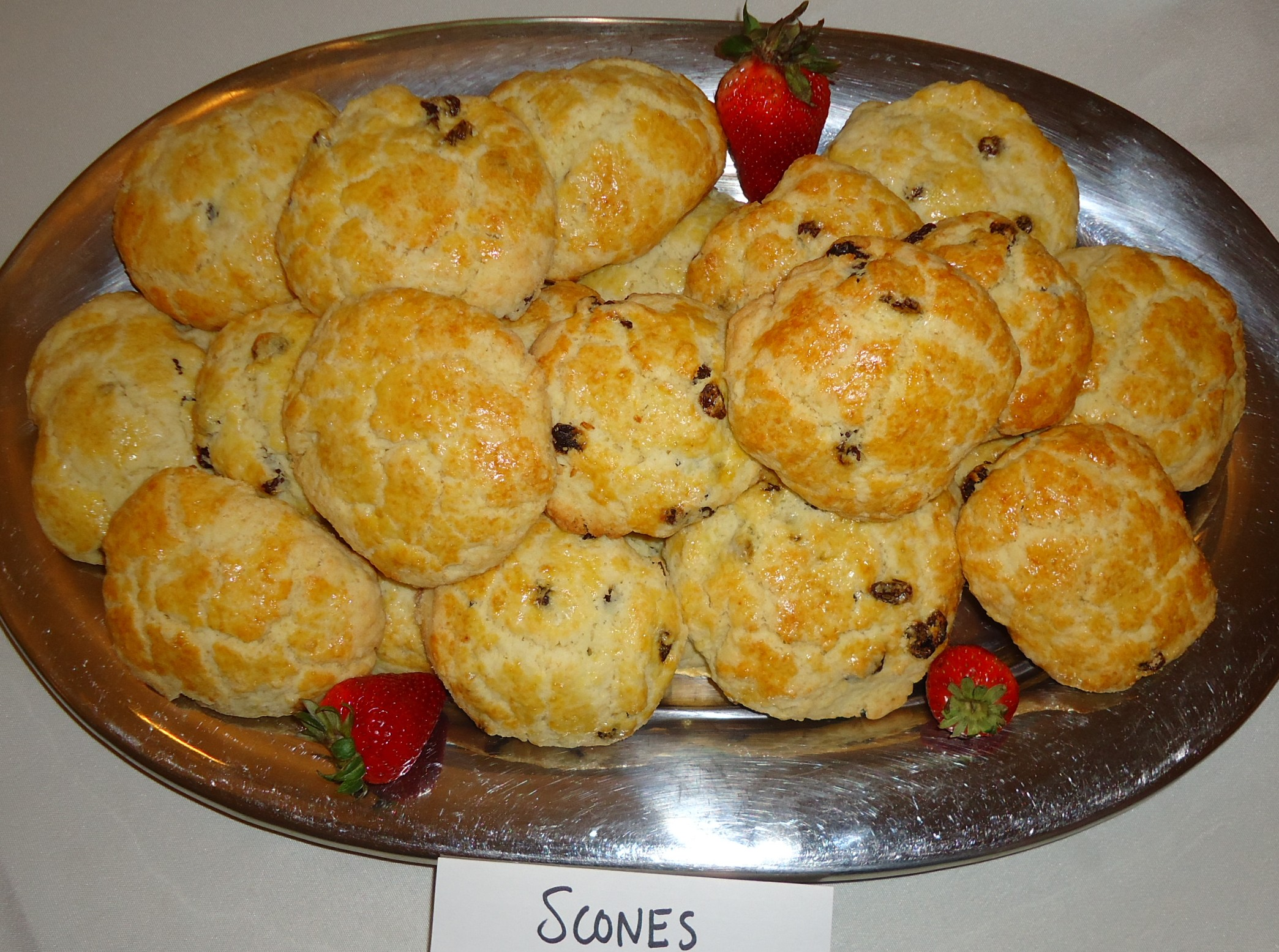 Scones and strawberries.